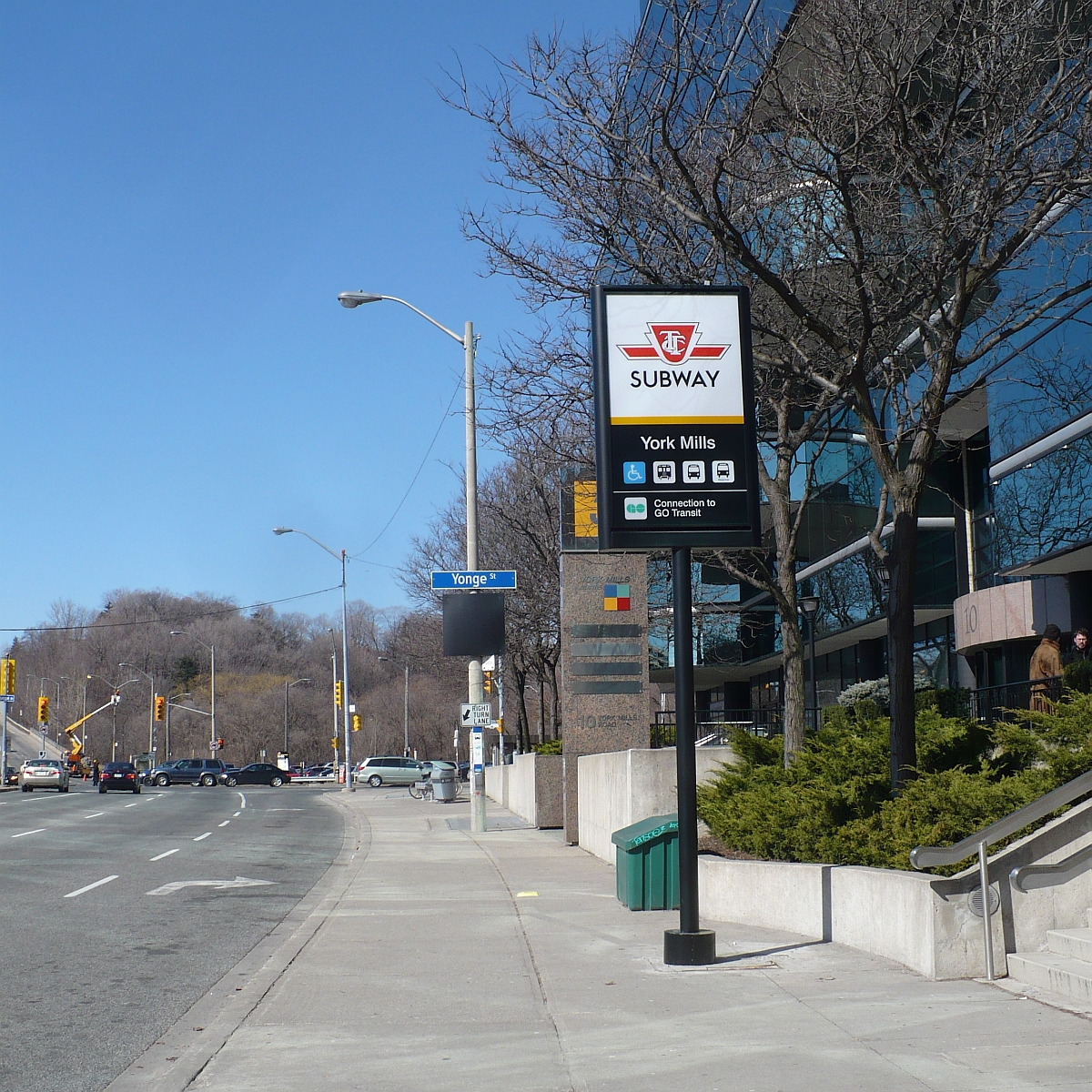 York Mills TTC subway station entrance through the office building at the northeast corner of York Mills Road and Yonge Street